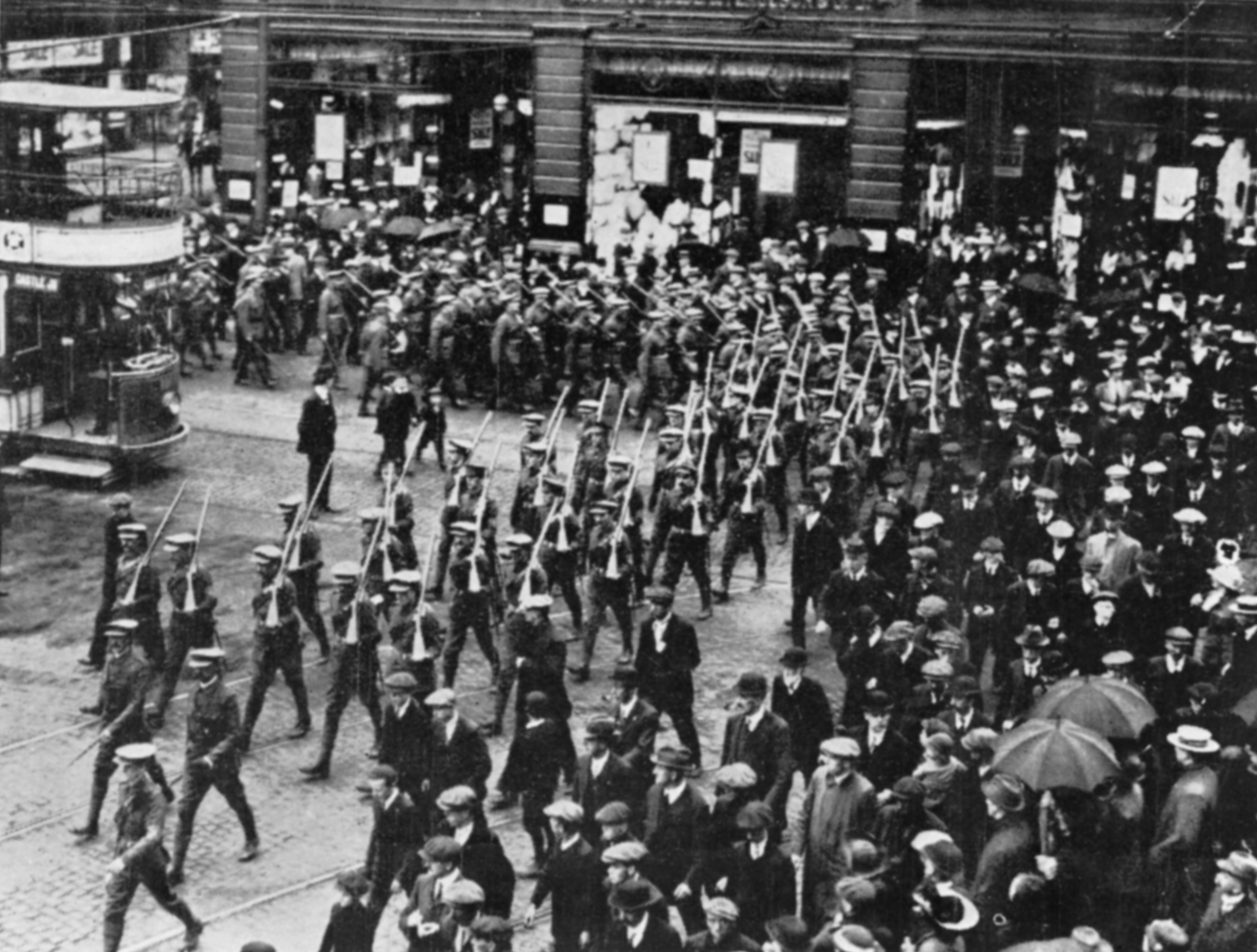 The Ulster Volunteer Force, Belfast, Northern Ireland, 1914 Members of the Ulster Volunteer Force march through Belfast, rifles on shoulders shortly before the First World War.